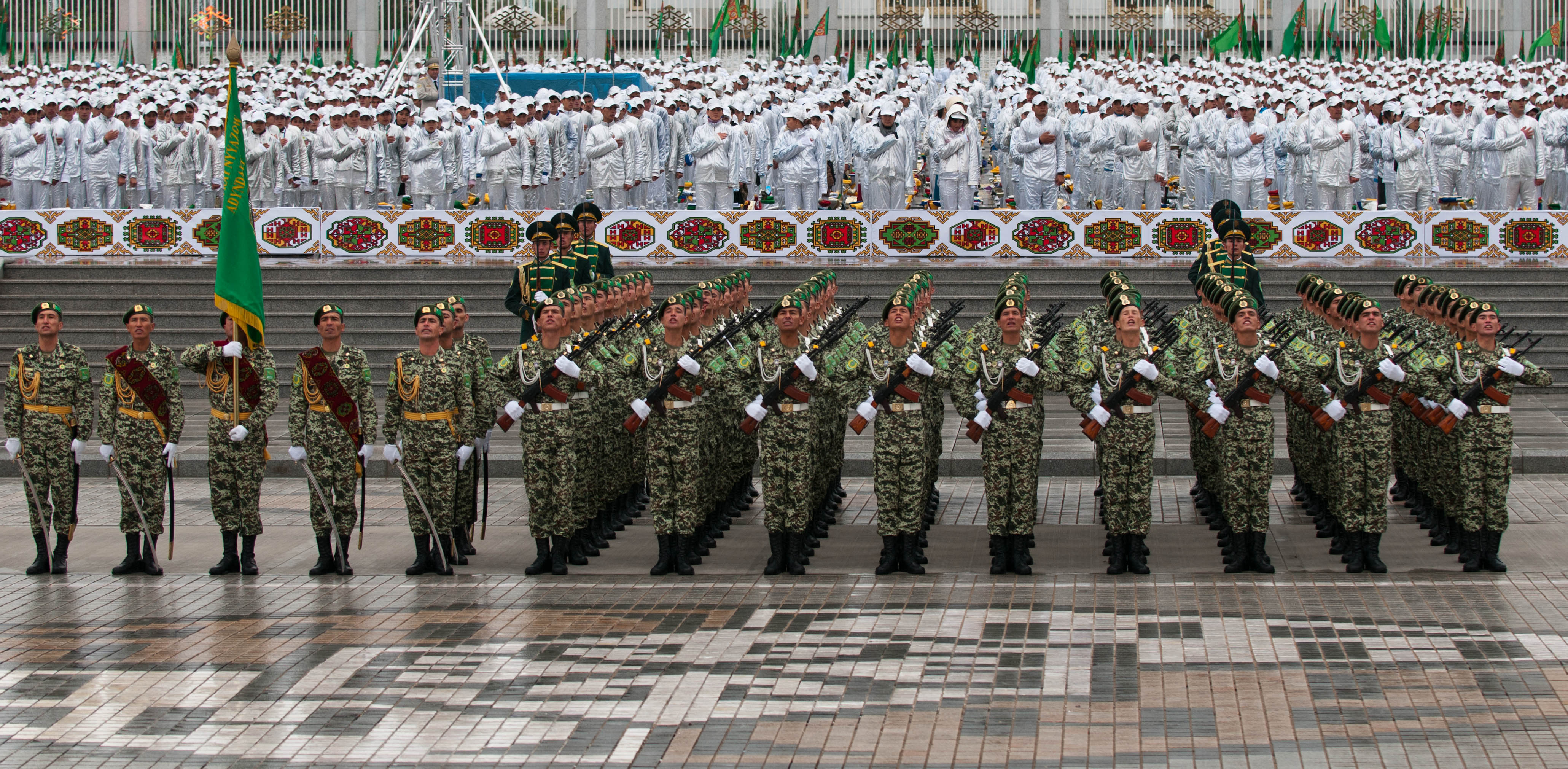 Celebrating the 20th year of independence in Turkmenistan